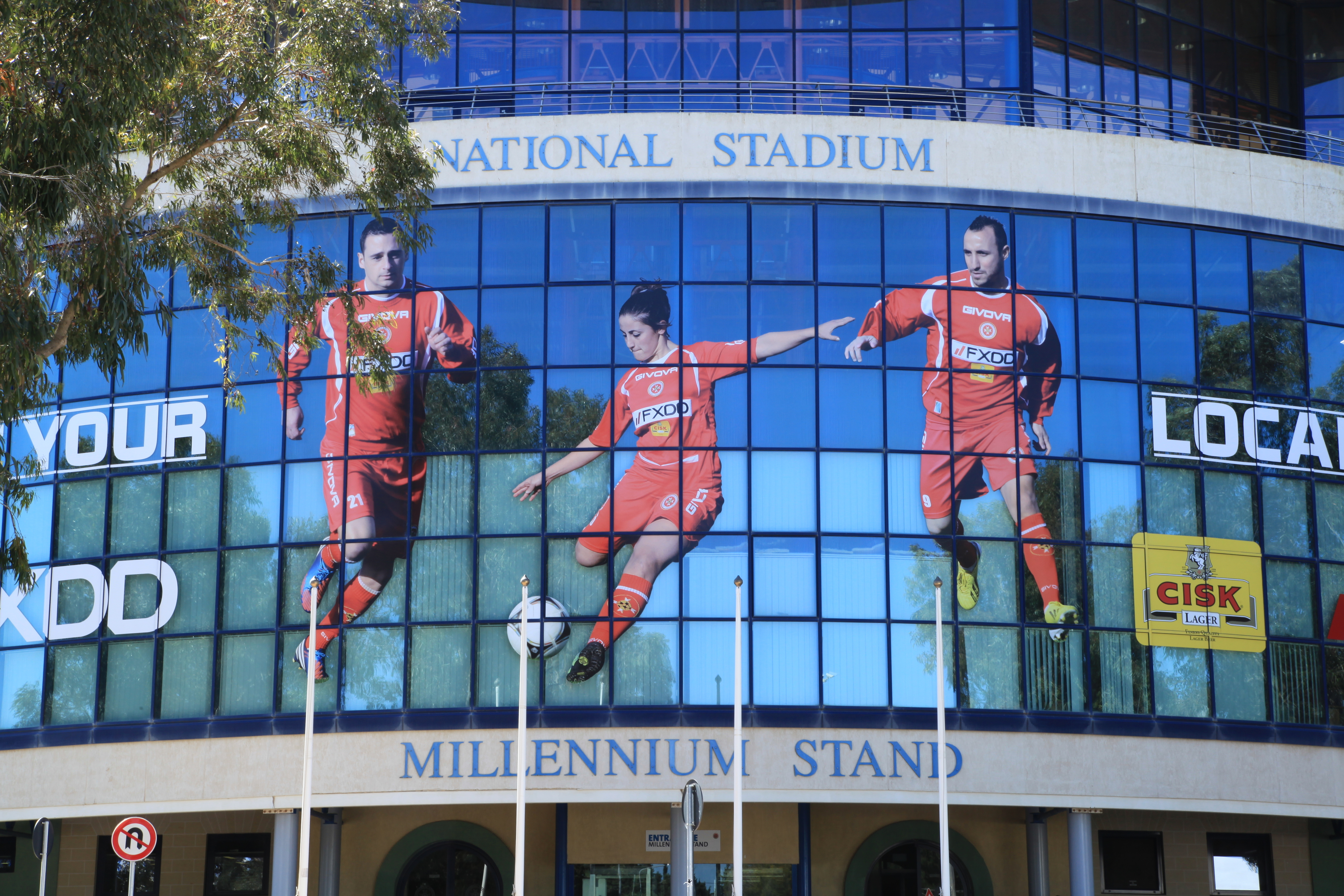 Ta' Qali National Stadium in Attard, Malta